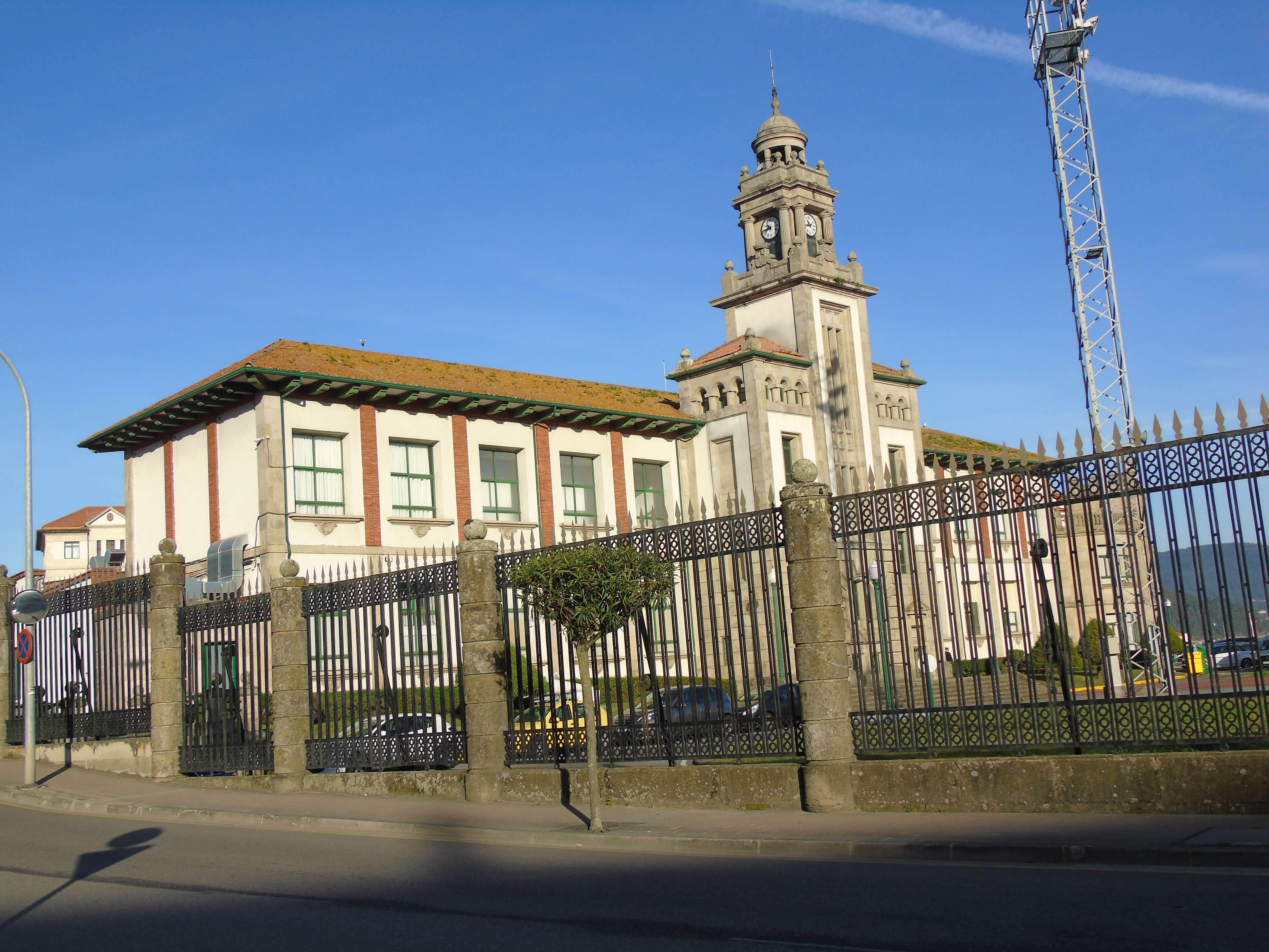 Military Naval School of Marín (Pontevedra, Spain).